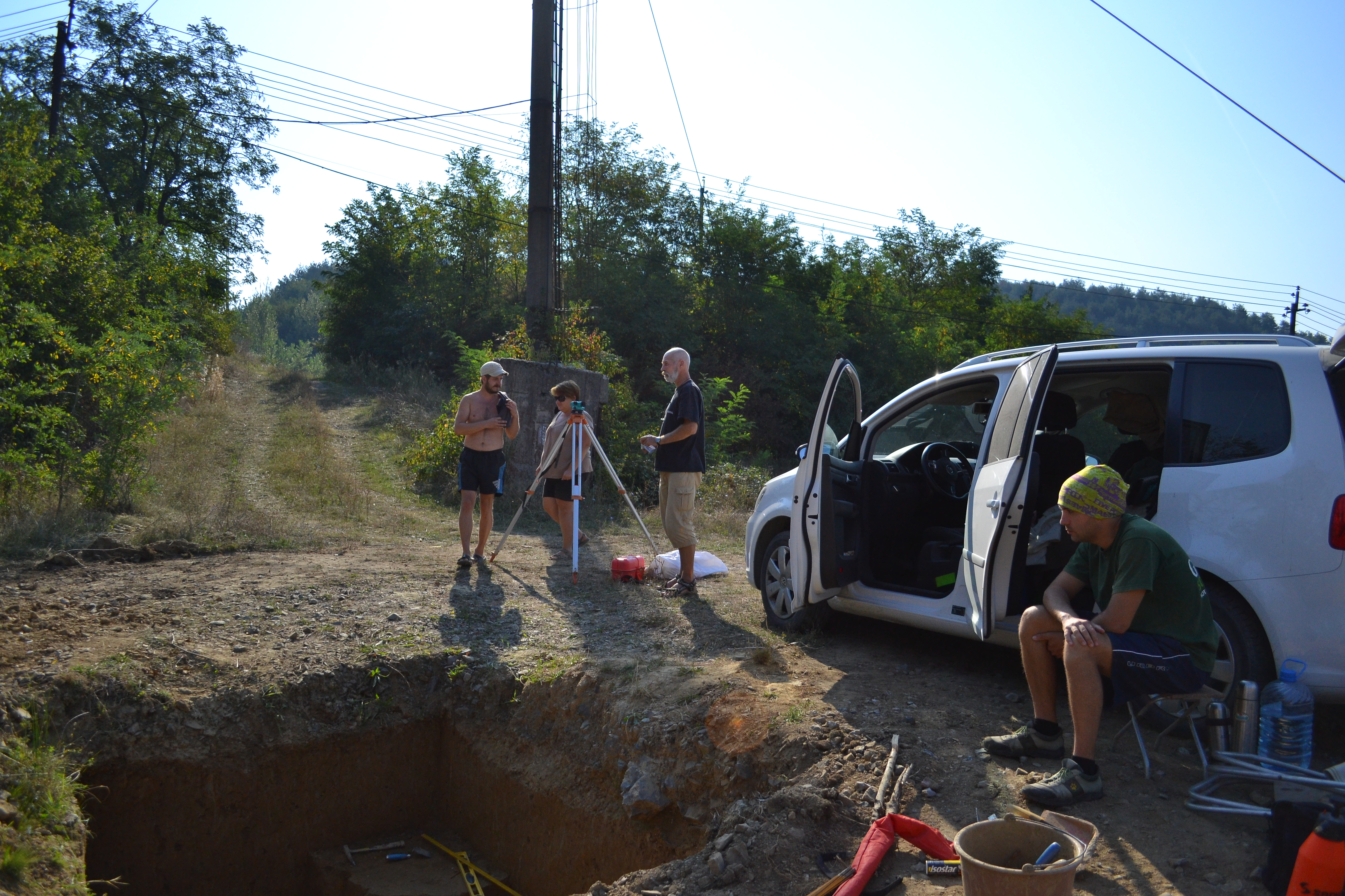 Archaeological excavations in the village of Korolevo Vinogradovsky district of Transcarpathia (Ukraine), where one of Europe's largest paleontological collections was found